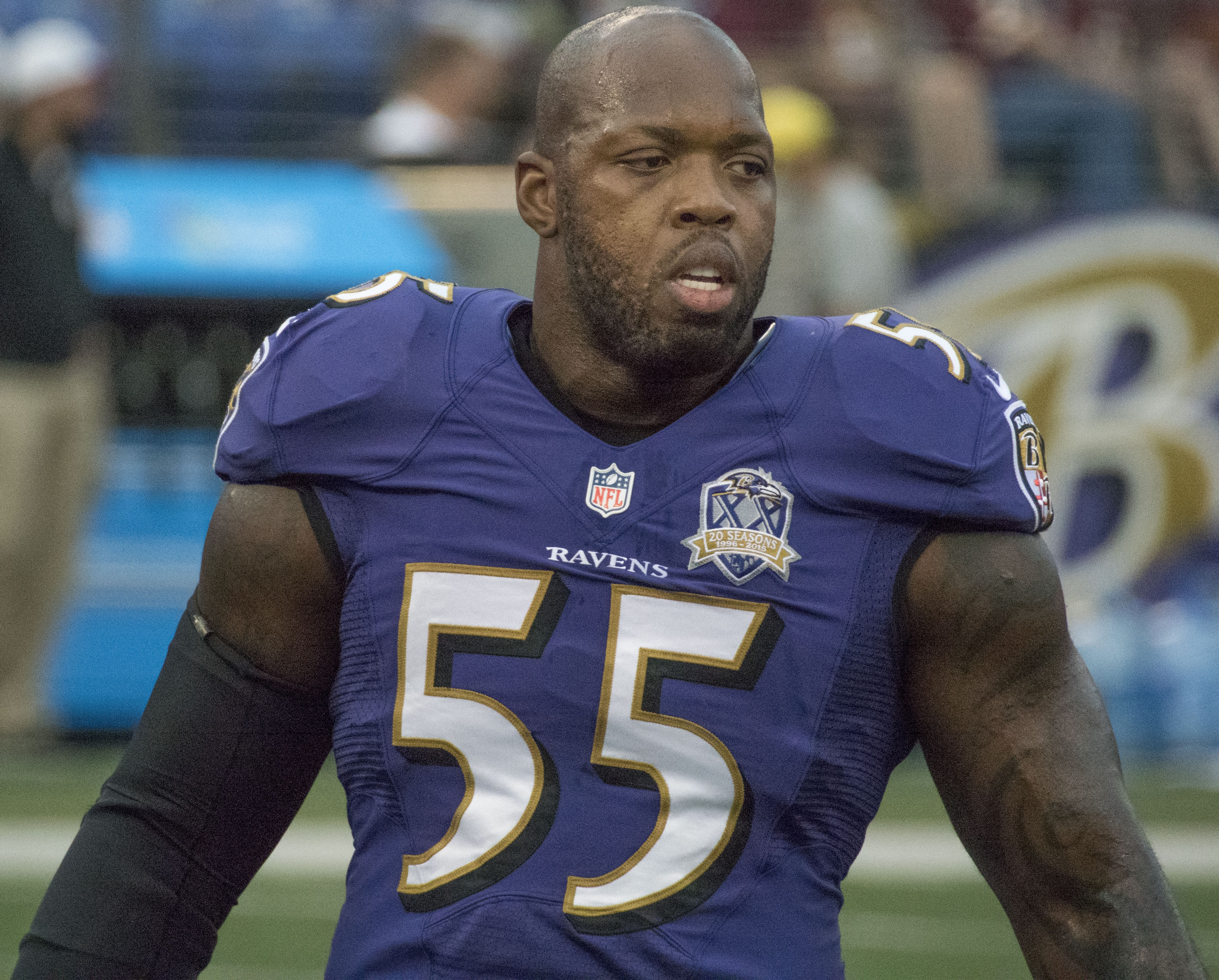 Redskins at Ravens 8/29/15